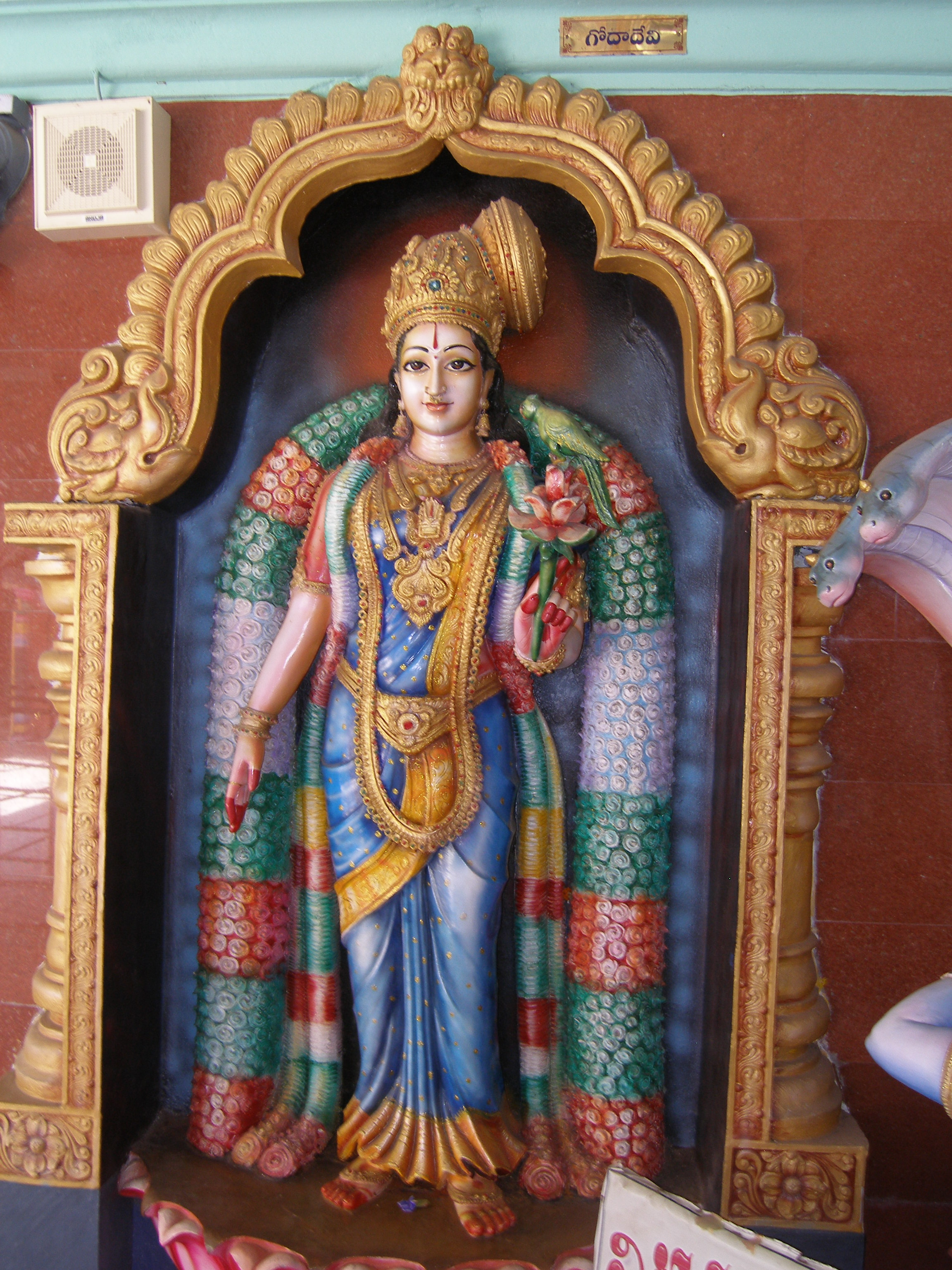 Godadevi at Narayana Tirumala.